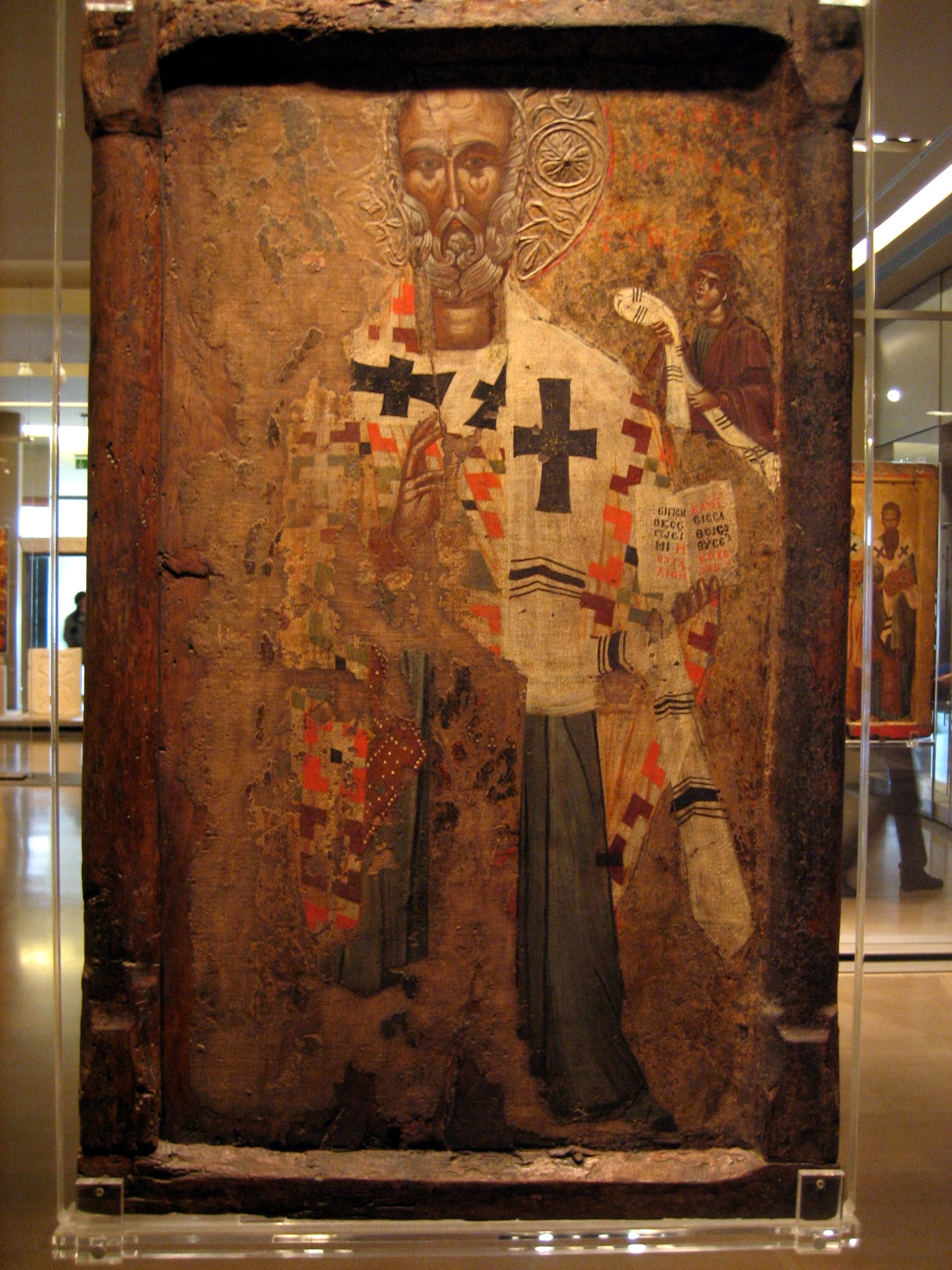 Icon of Saint Nicholas in the Byzantine and Christian Museum in Athens. From Berroia, 15th century.